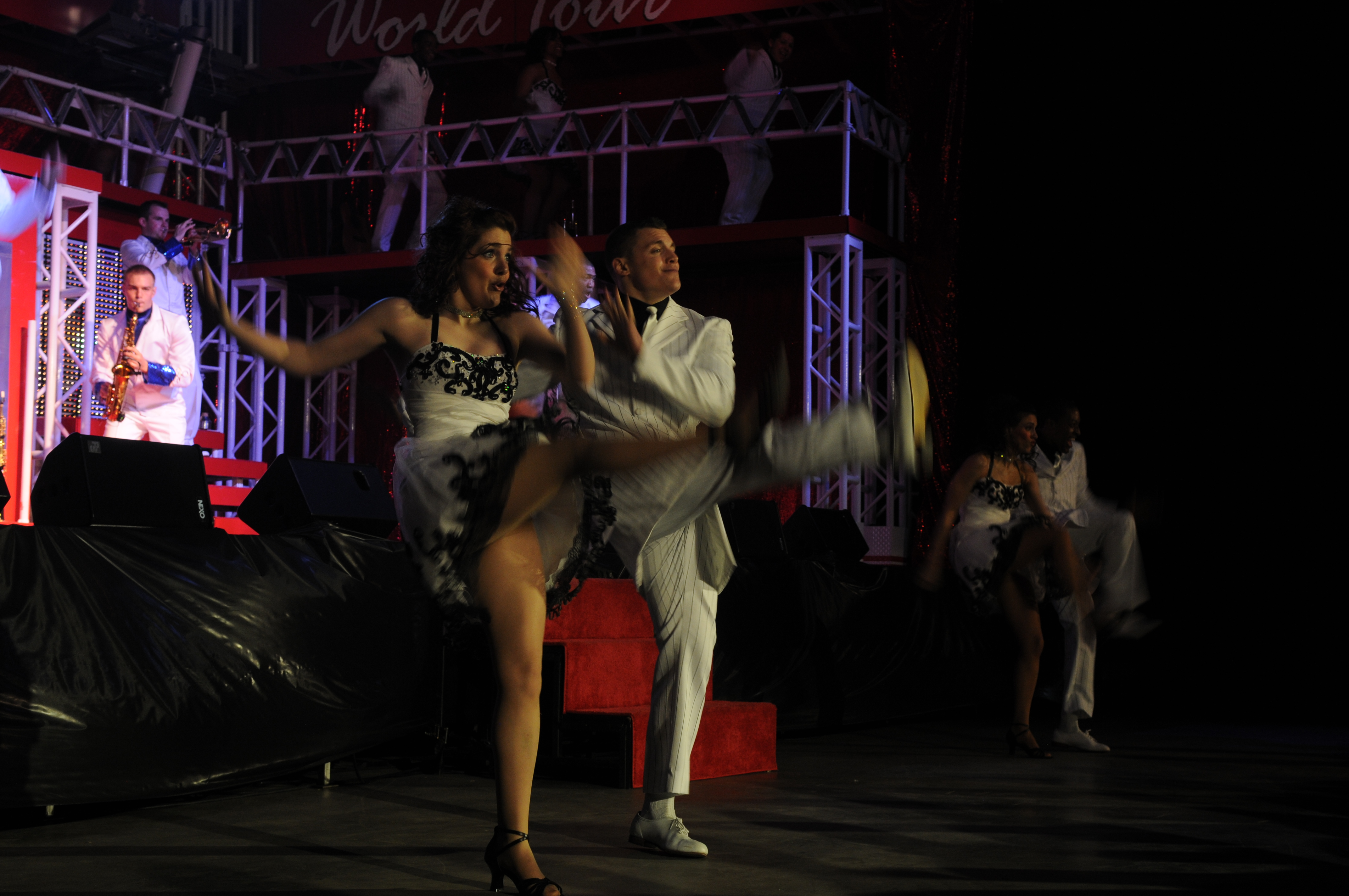 U.S. Air Force Airman 1st Class Aimee Grills, left, and 1st Lt. Robert Doyle, center, both with the 2011 Tops in Blue team, perform a swing dance routine during a concert at Foster Communications Coliseum in San Angelo, Texas, June 1, 2011. The concert was a free event open to the public.